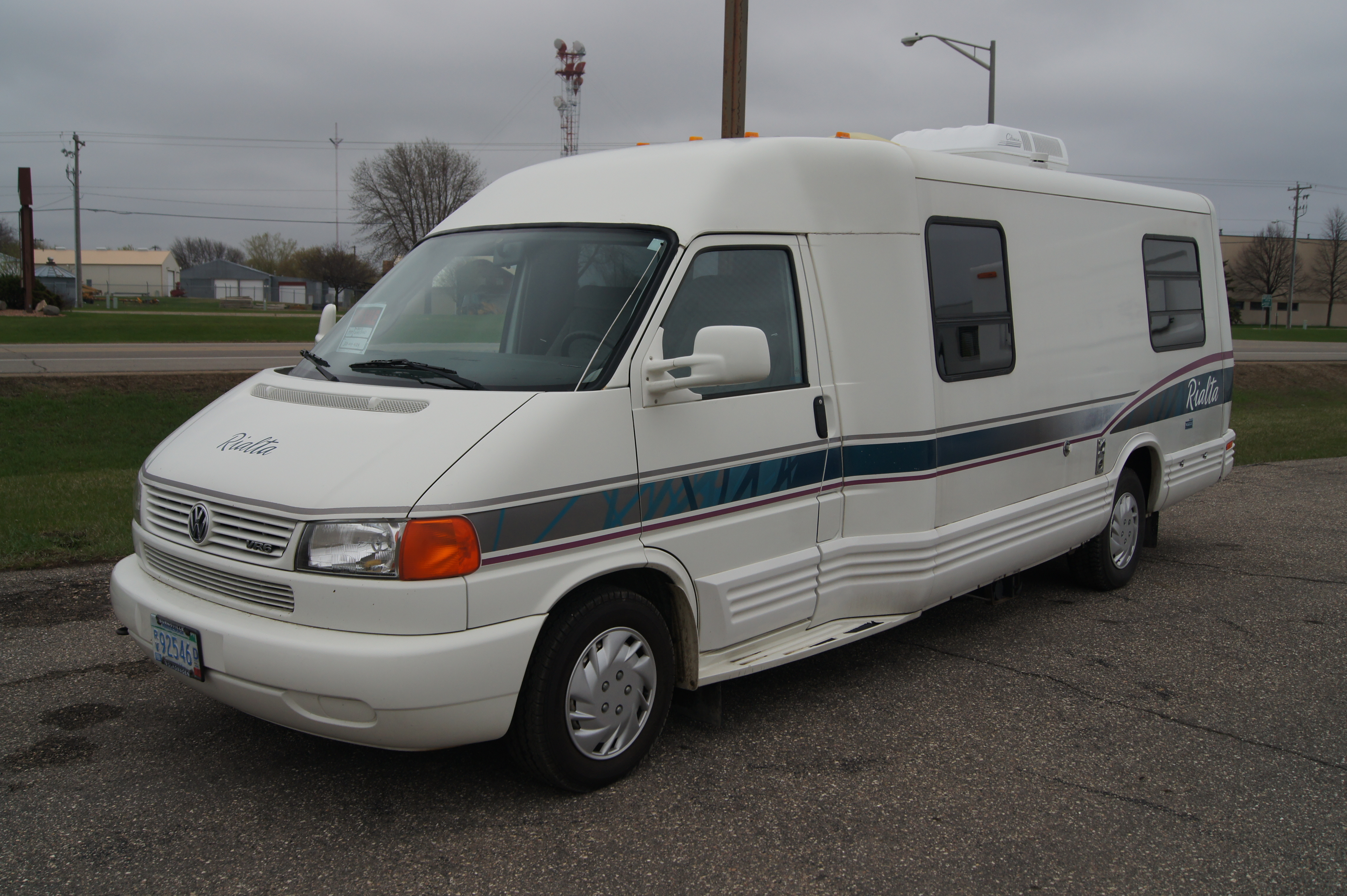 Click here for more car pictures at my Flickr site.